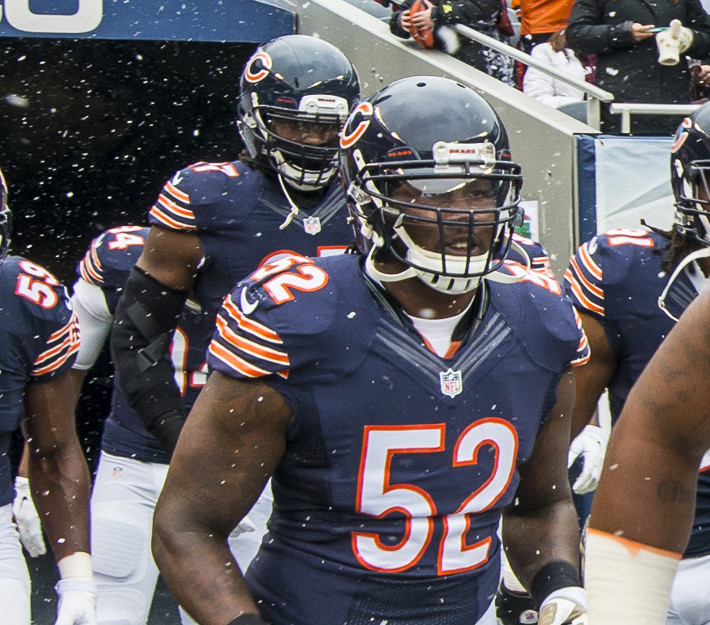 Chicago Bears linebacker, Khaseem Greene, in a game against the Minnesota Vikings on November 16, 2014.